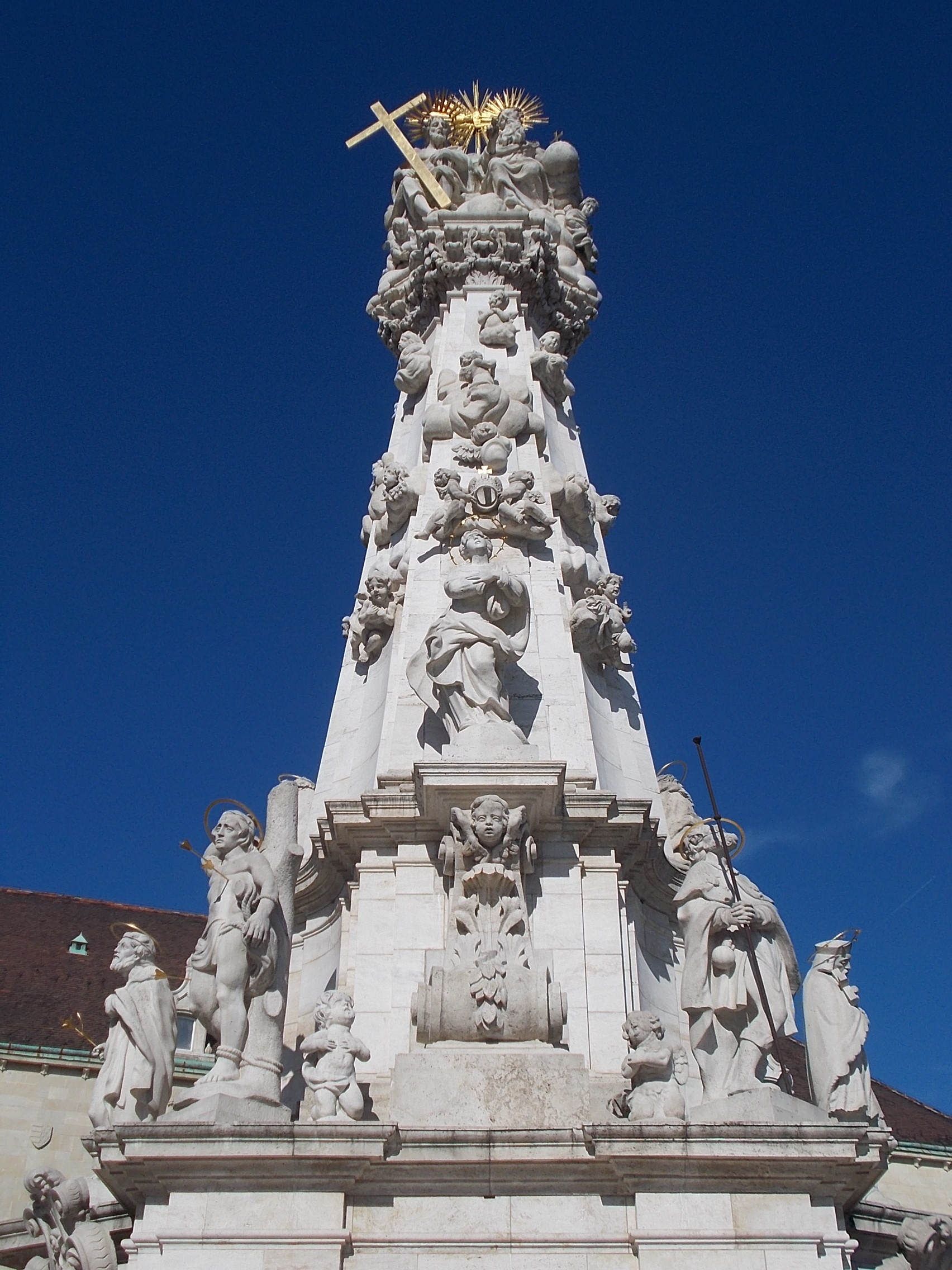 Virgin Mary, above its the Ungleich's Trinity group, Holy Trinity column. - Szentháromság Square, Várnegyed neighbourhood, Budapest District I.